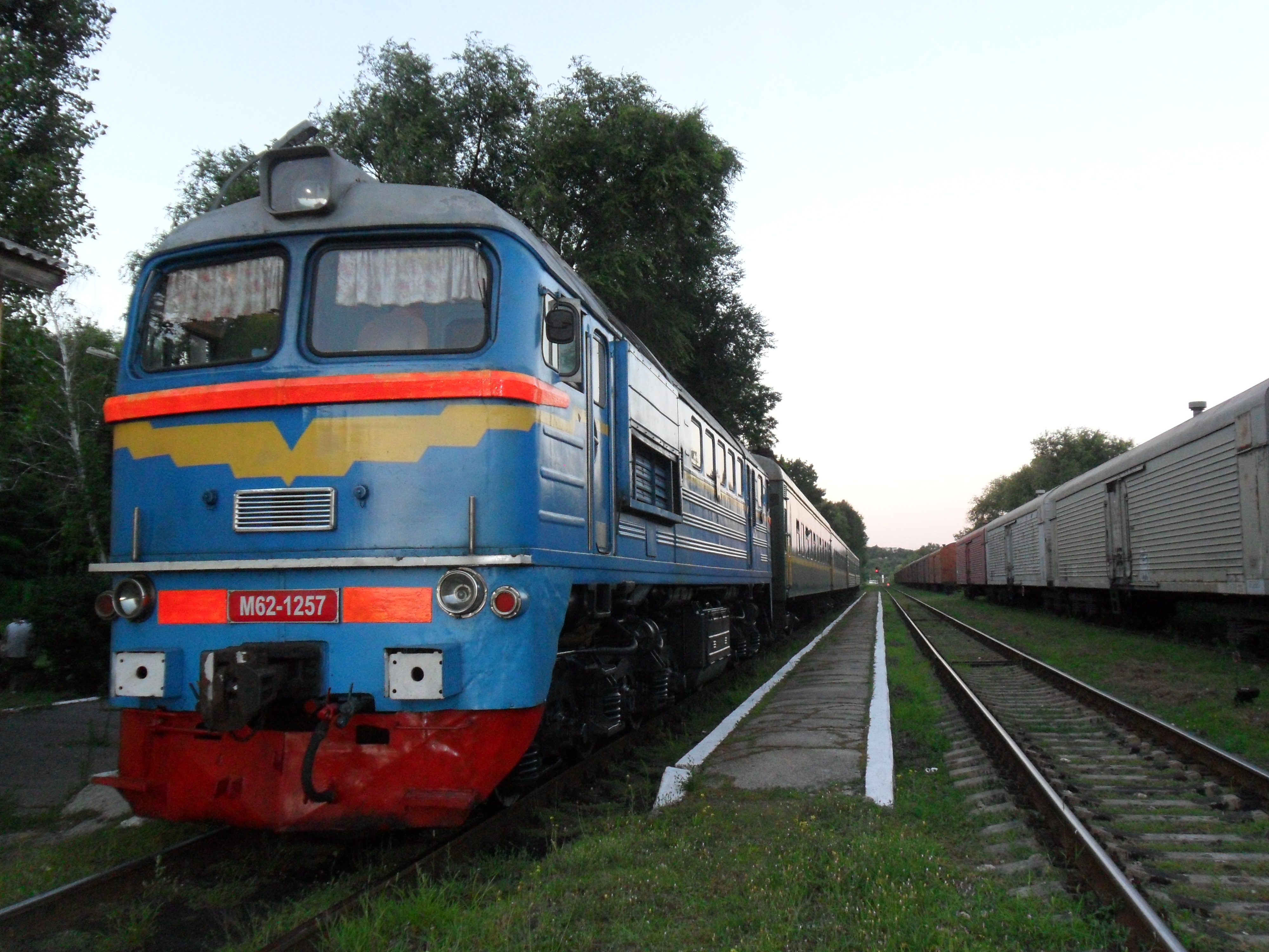 Odessa-Chișinău train, Bulboaca station